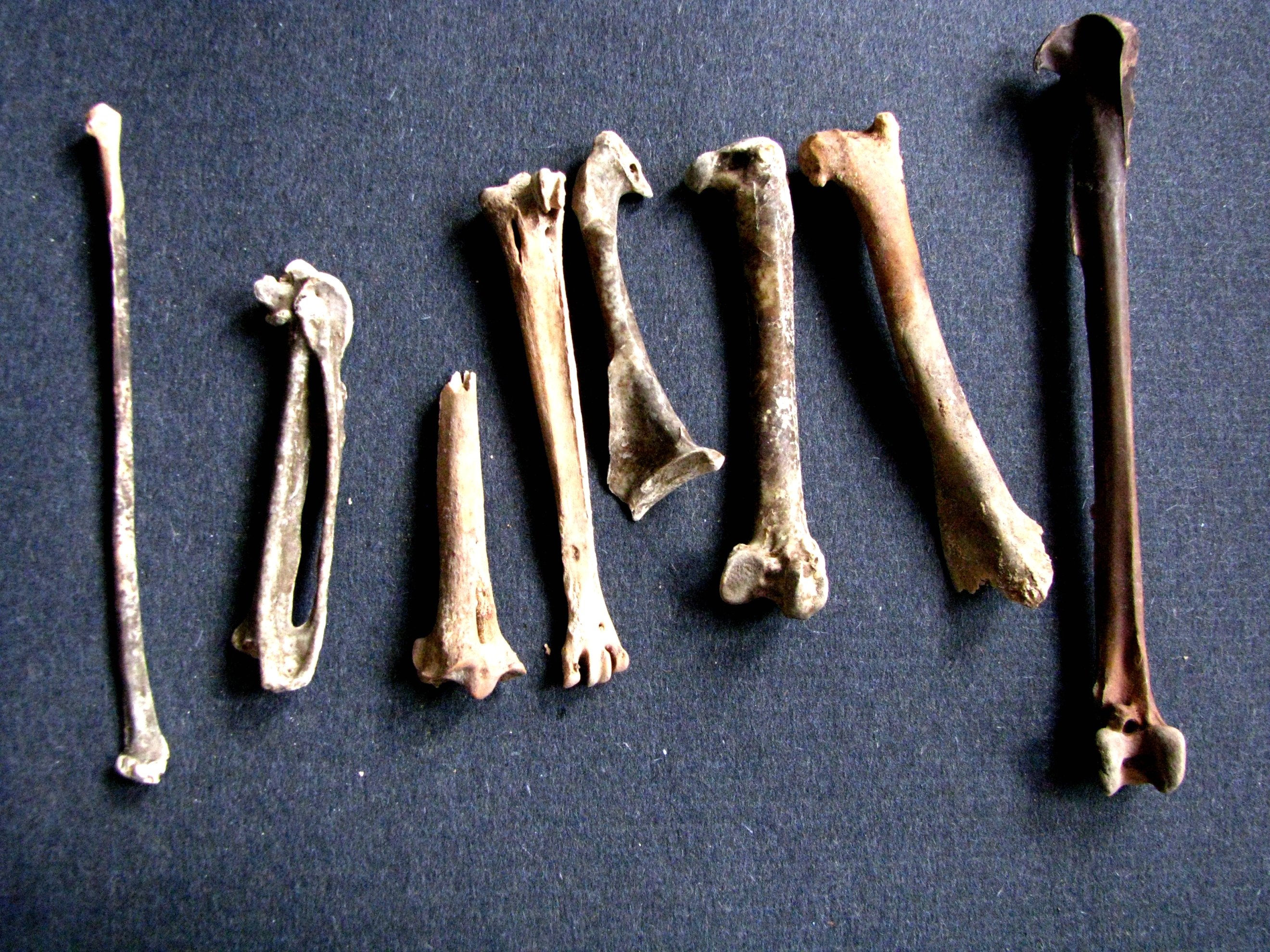 The Hawaiian Islands once had three distinct crows (Corvus). One species remains and it is extremely rare, the Hawaiian crow or ʻalalā (Corvus hawaiiensis). The other two are extinct. These fossils represent one or two of the Slender-billed crow (Corvus viriosus) and the Deep-billed crow (C. impulviatus). Pictured is a variety of "wing" and "leg" bones. These specimens came from the Barber's Point sinkholes, Oʻahu,Hawaiian Islands. Identified by the late Alan C. Ziegler in 1992.